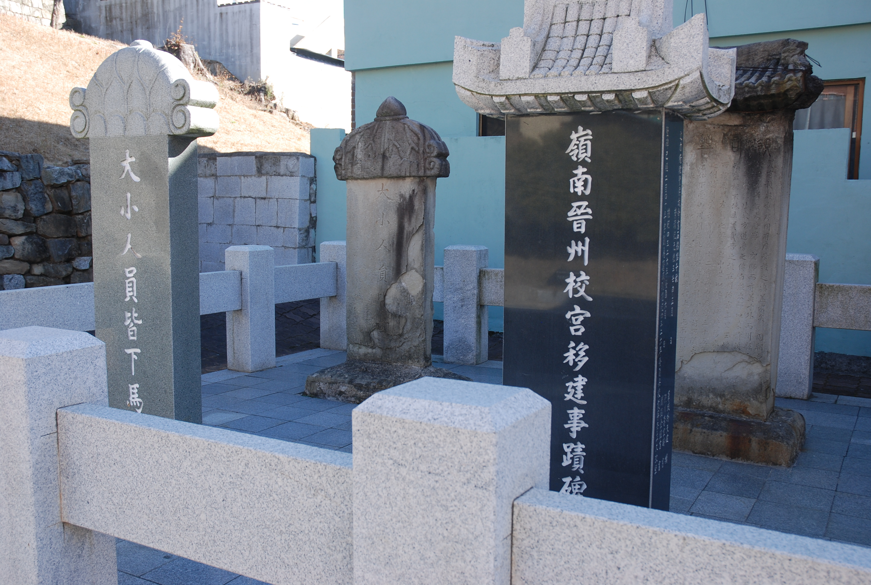 Jinju hyanggyo, historical monument from the old to the present